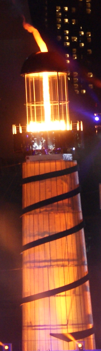 The lighthouse-inspired Olympic cauldron at the 2010 Summer Youth Olympics opening ceremony at The Float@Marina Bay, Singapore.